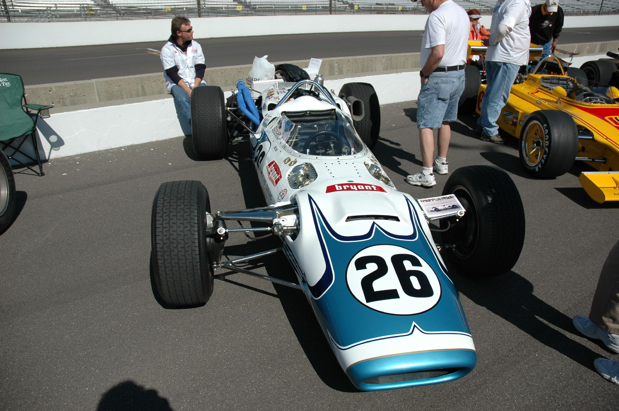 The Lola-Offy driven by Rodger Ward in the 1966 Indianapolis 500.